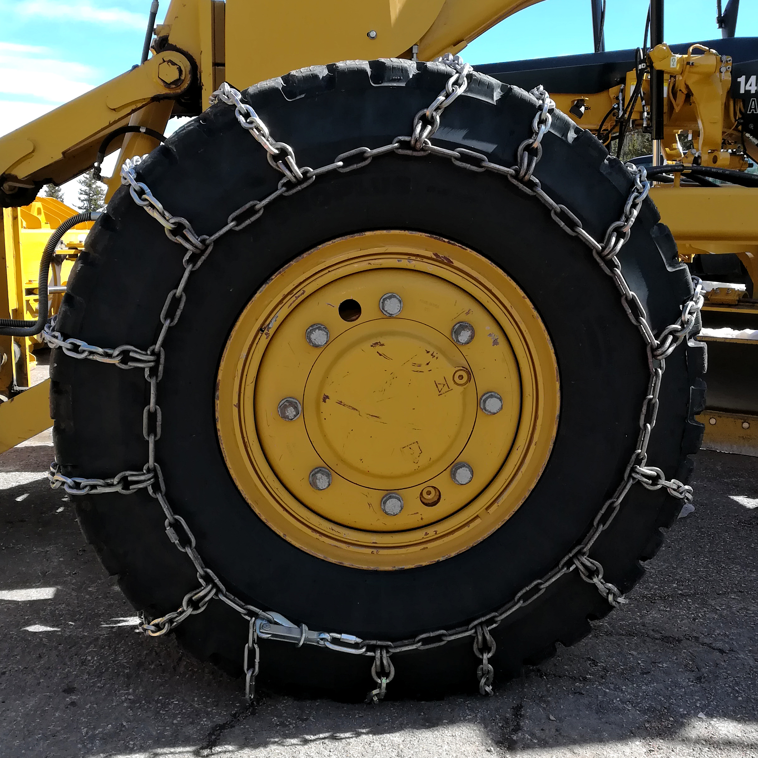 Snow chain at a snow removing grader